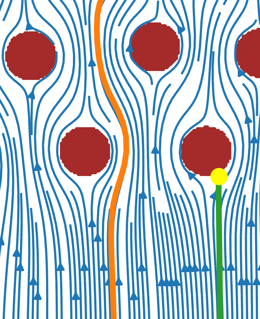 This shows the result of a Lattice Boltzmann simulation of a a fluid (air) flowing around obstacles, in two dimensions. The obstacles are discs (shown in brown), and streamlines showing the air flow are in blue; the arrows indicate the direction of flow (from bottom to top). Trajectories of two particles are shown. The orange trajectory is for a Stokes number less than one, and so the particle follows the streamlines, and curves around the obstacles. The green trajectory is for a Stokes number greater than one, and so particle does not follow the streamlines, it tends to go straight ahead. In this case it then collides with an obstacle, collision is shown in yellow.